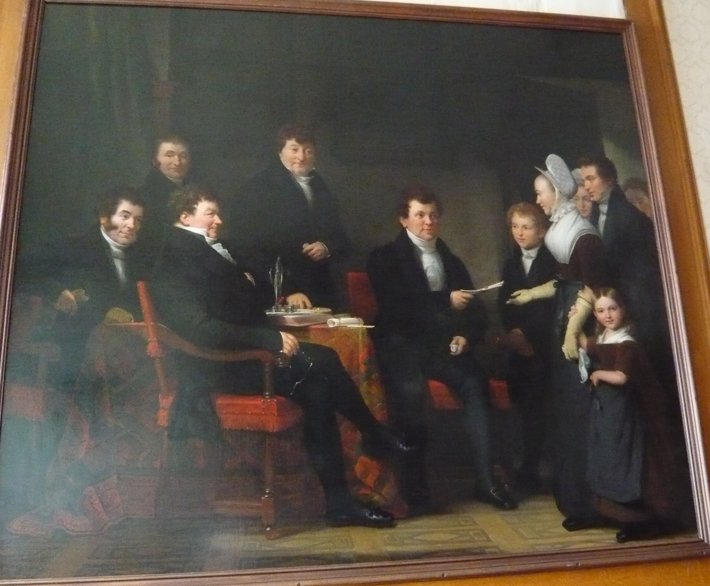 Portrait of the regents of the Mennonite orphanage, Haarlem, 1834